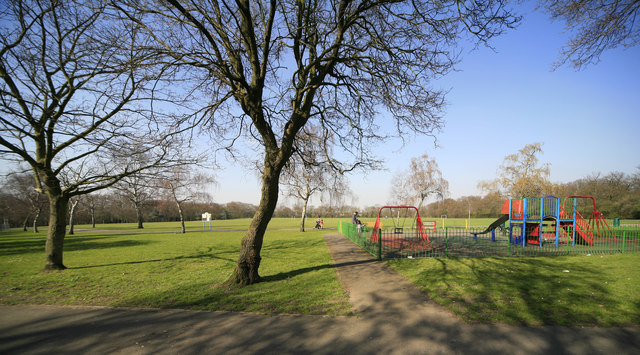 Forster Memorial Park (Opened 1922). Ambiguous title? The Rt Hon. The Lord Henry William Forster, GCMG, PC, DL presented the land for a park to Lewisham in 1919 to be a memorial to his two sons who were killed in the First World War.